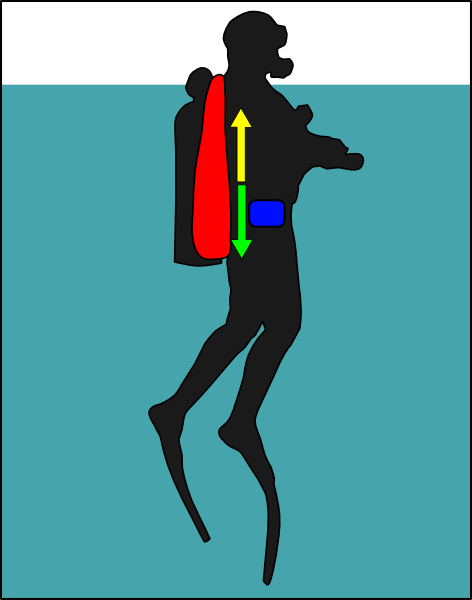 Diver with wing at surface